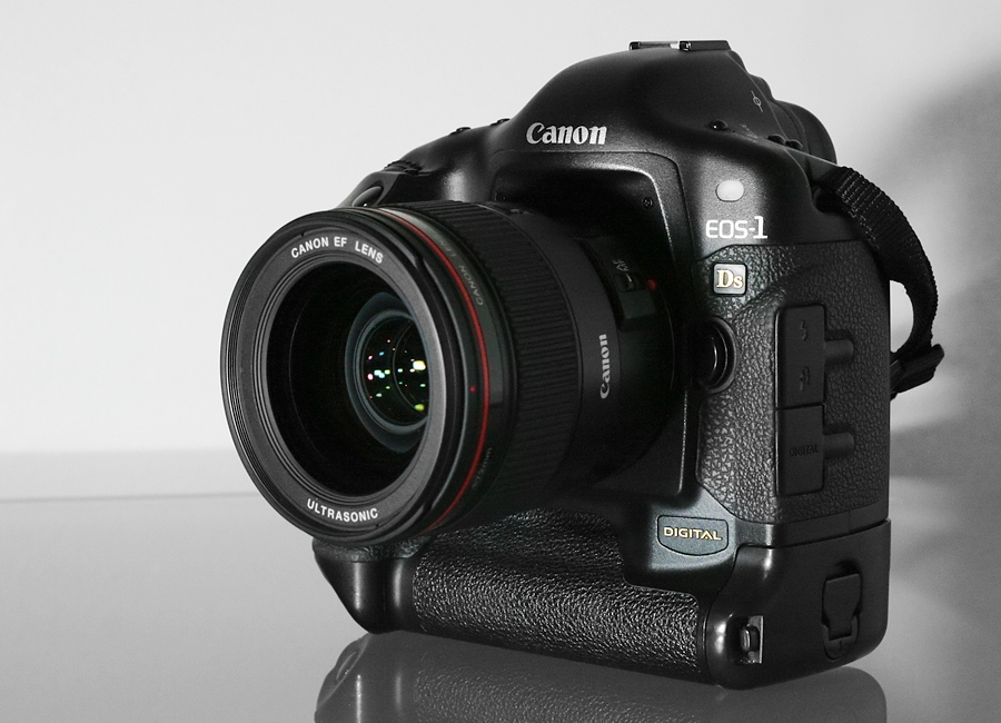 Canon EOS-1Ds professional digital single-lens reflex camera with Canon EF 35mm f/1.4L USM lens.